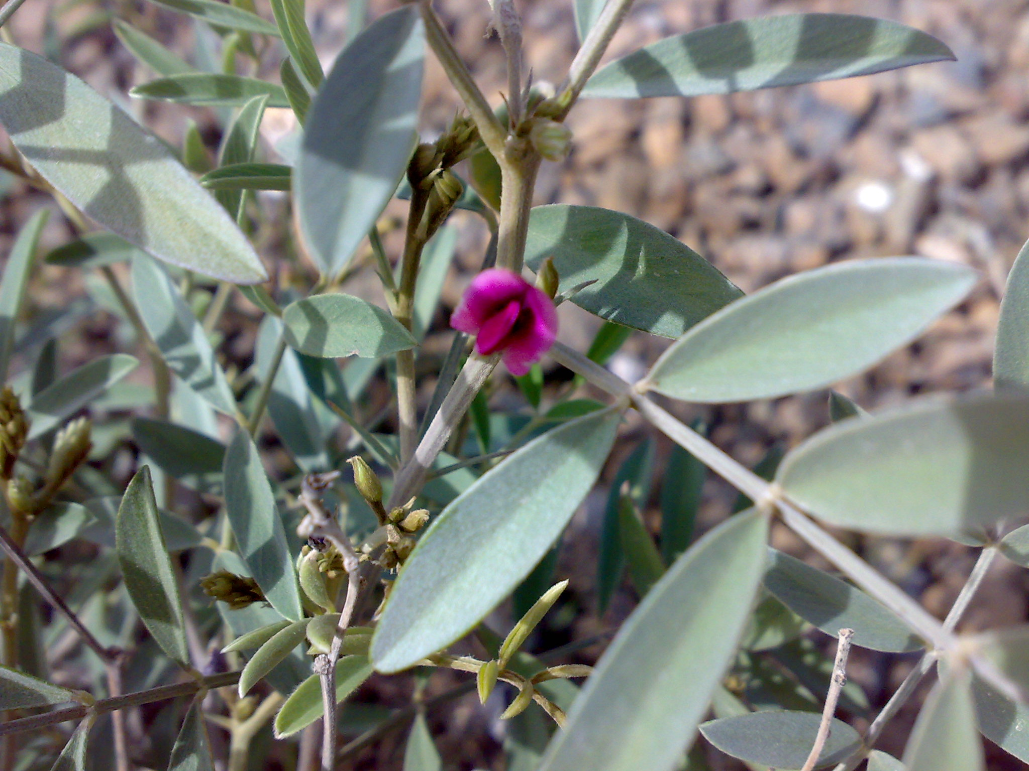 Tephrosia apollinea in the semi-desert north of Fujeirah City, Indian Ocean coast, United Arab Emirates.